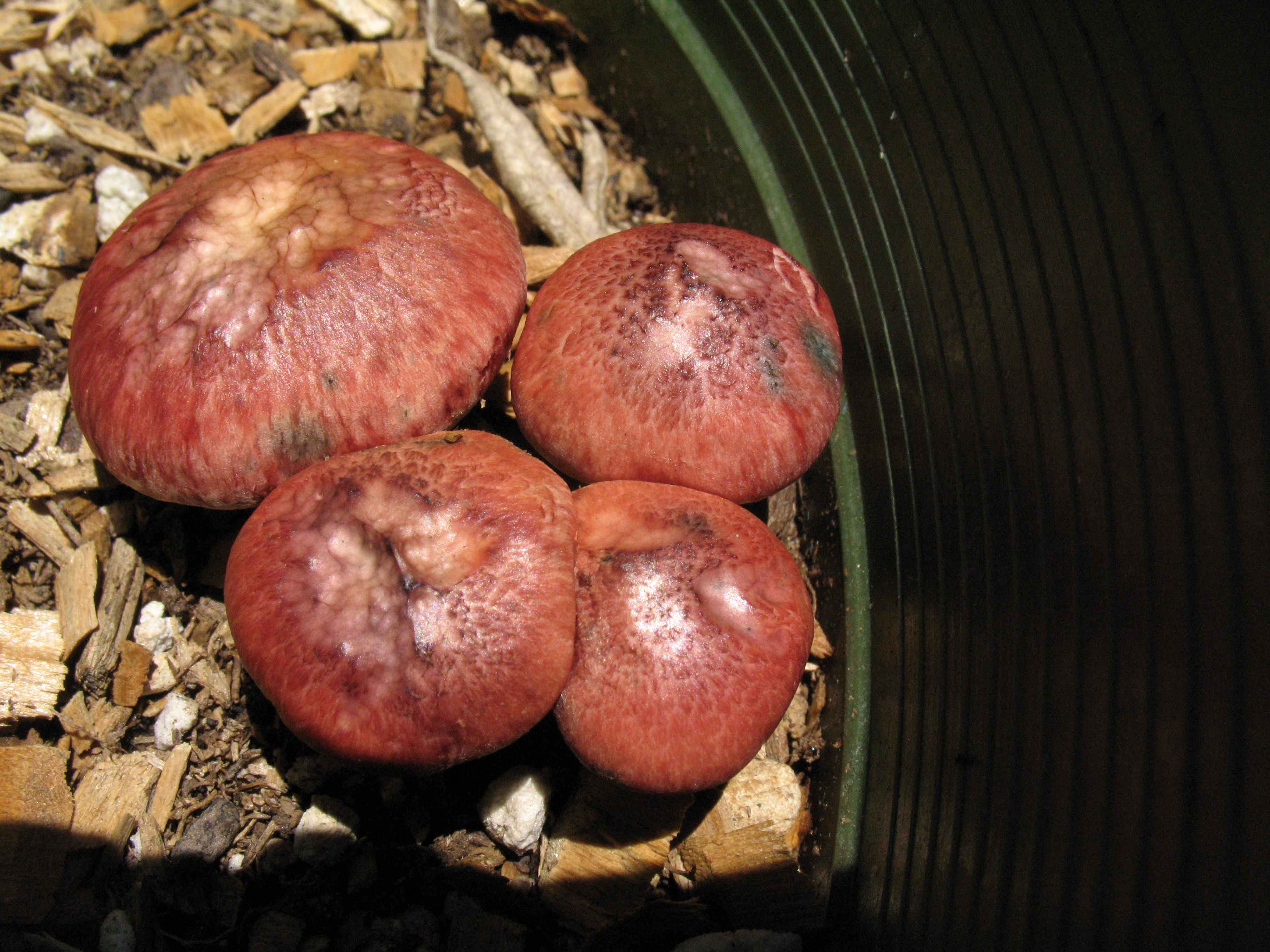 Gymnopilus luteofolius. Found growing in a flower pot in Mountain View, California. I uploaded more pics of this specimen here